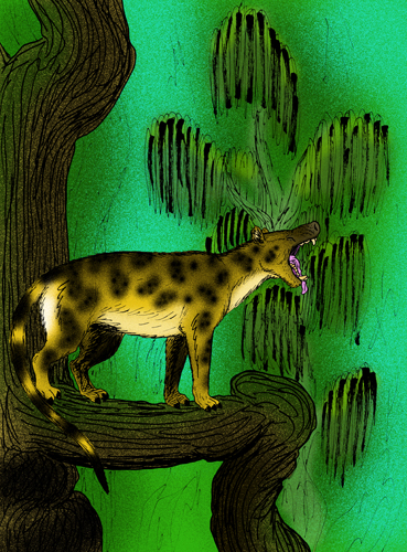 Reconstruction of the mesonychid Mesonyx obtusidens, of Early Eocene Wyoming and Utah